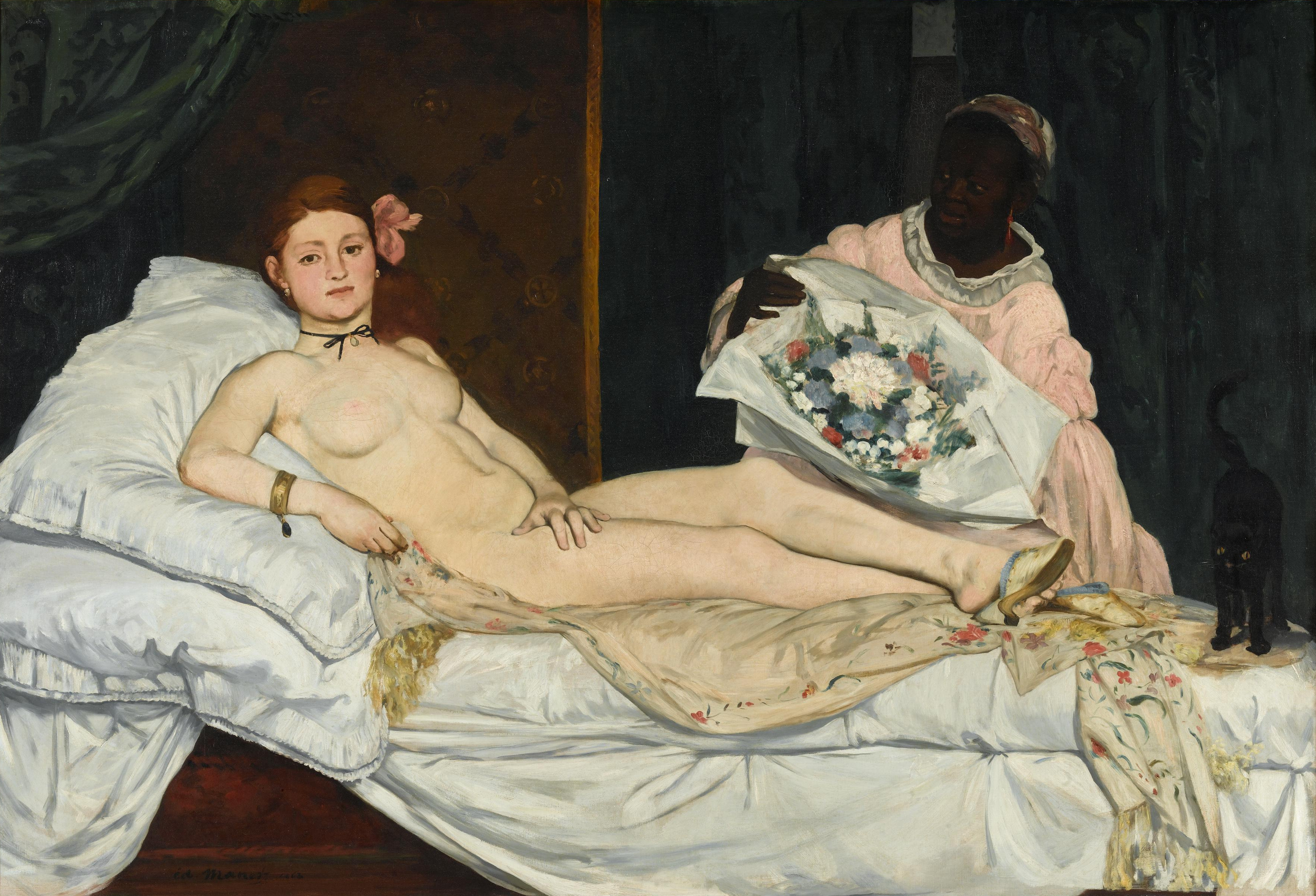 This is a derivative work based on the Google Art Project image (see gallery below). The flesh tone has been warmed.